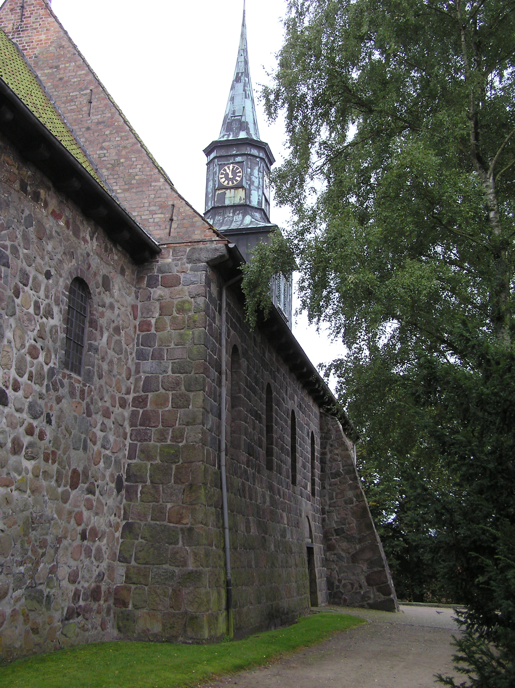 Saint Cyriacus Church in Kellinghusen, Schleswig-Holstein, Germany